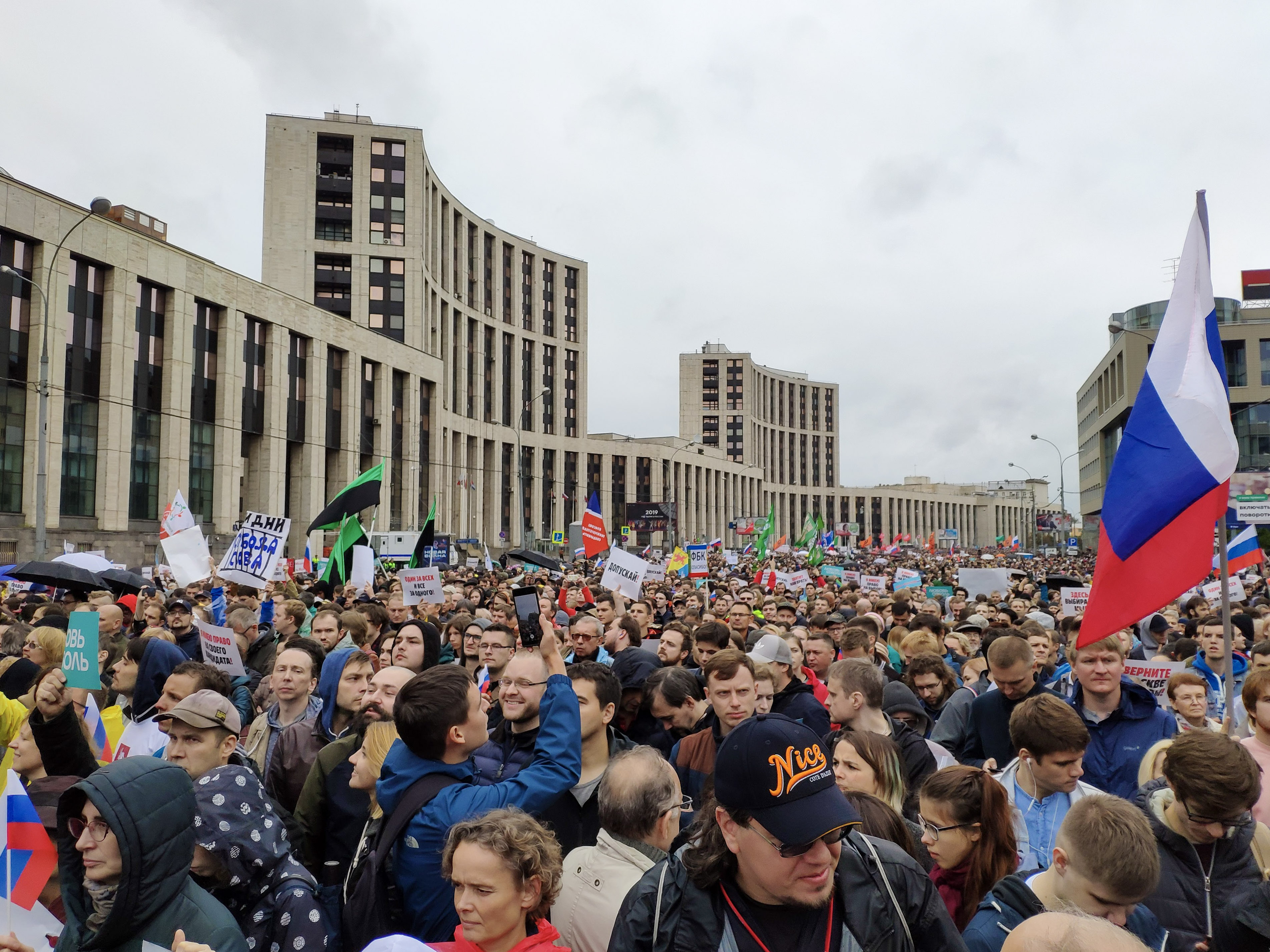 Rally for right to vote in Moscow (August 10, 2019).